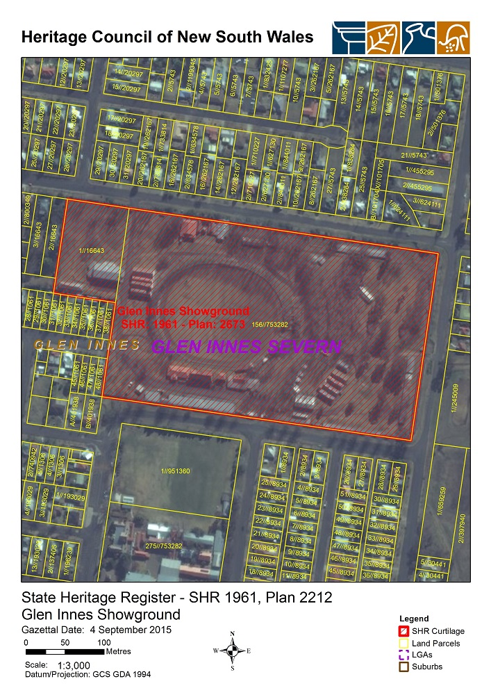 Glen Innes Showground: SHR Plan 2673